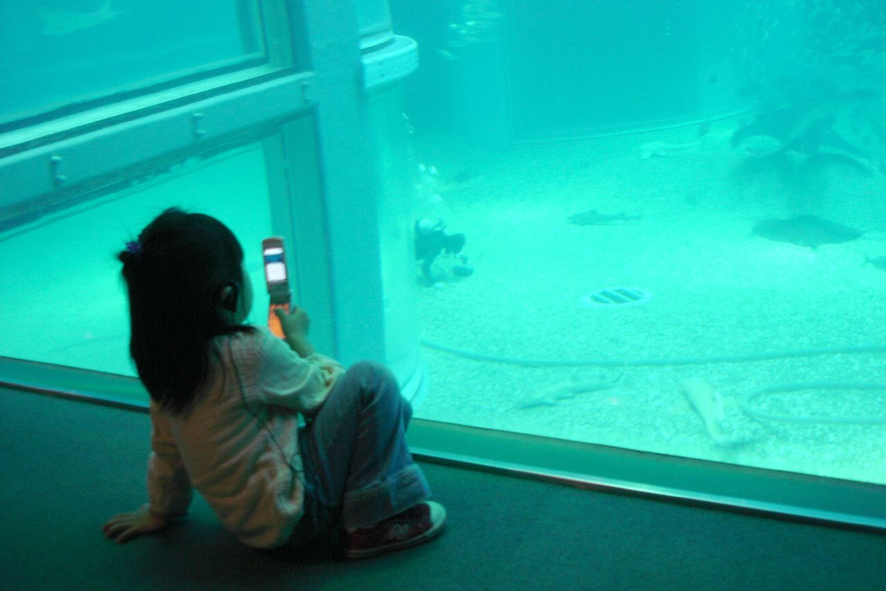 Little Japanese girl with her phone camera